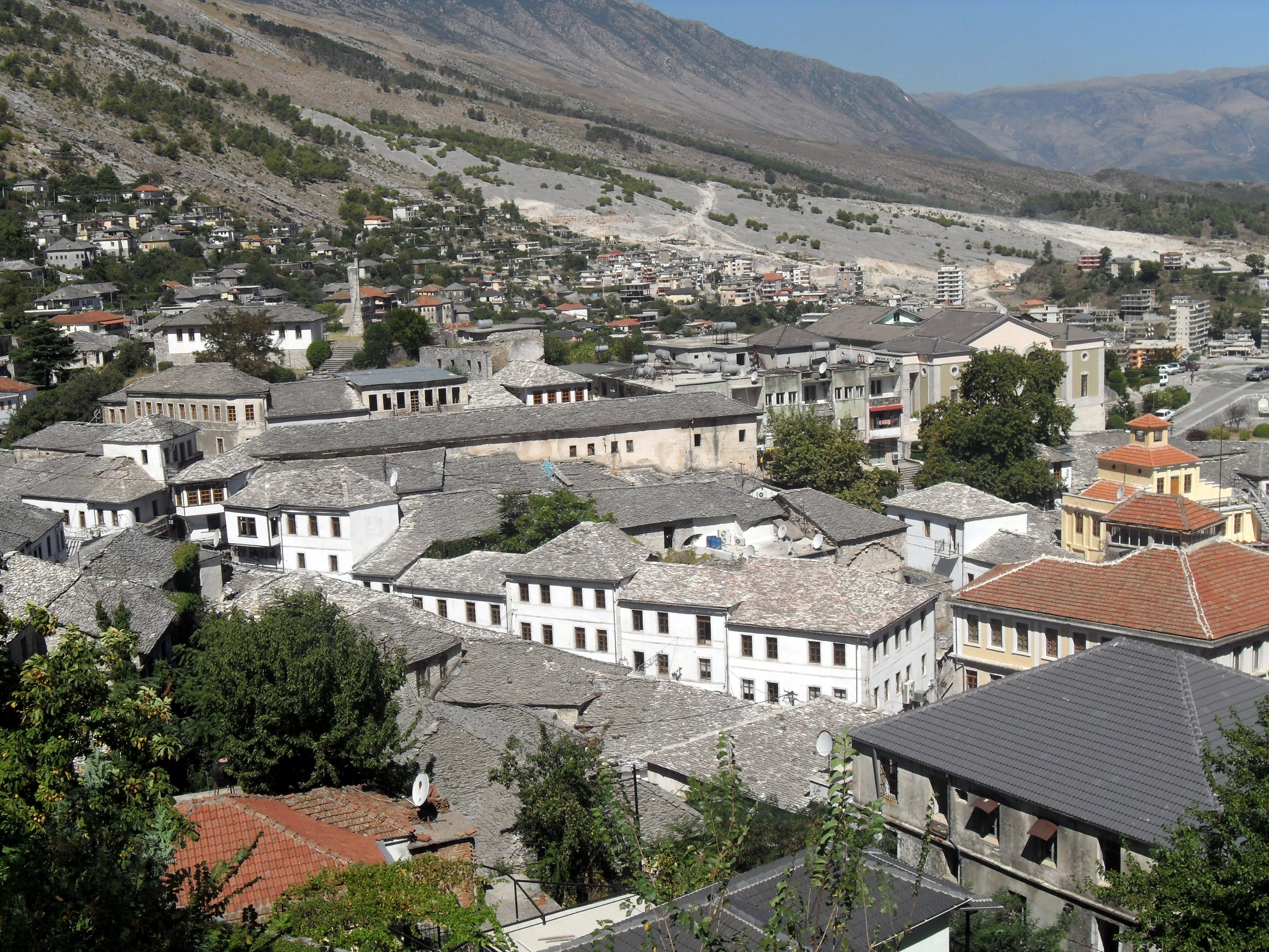 View from street to castle in Gjirokastër